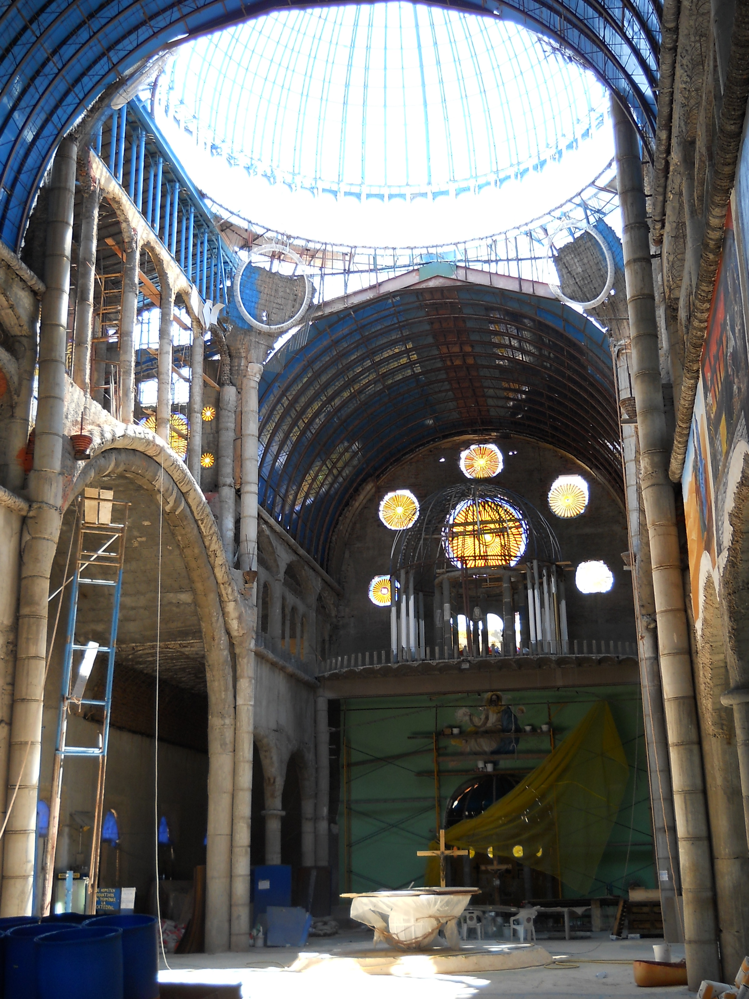 Central nave, Cathedral of Justo, Mejorada del Campo, Madrid, Spain